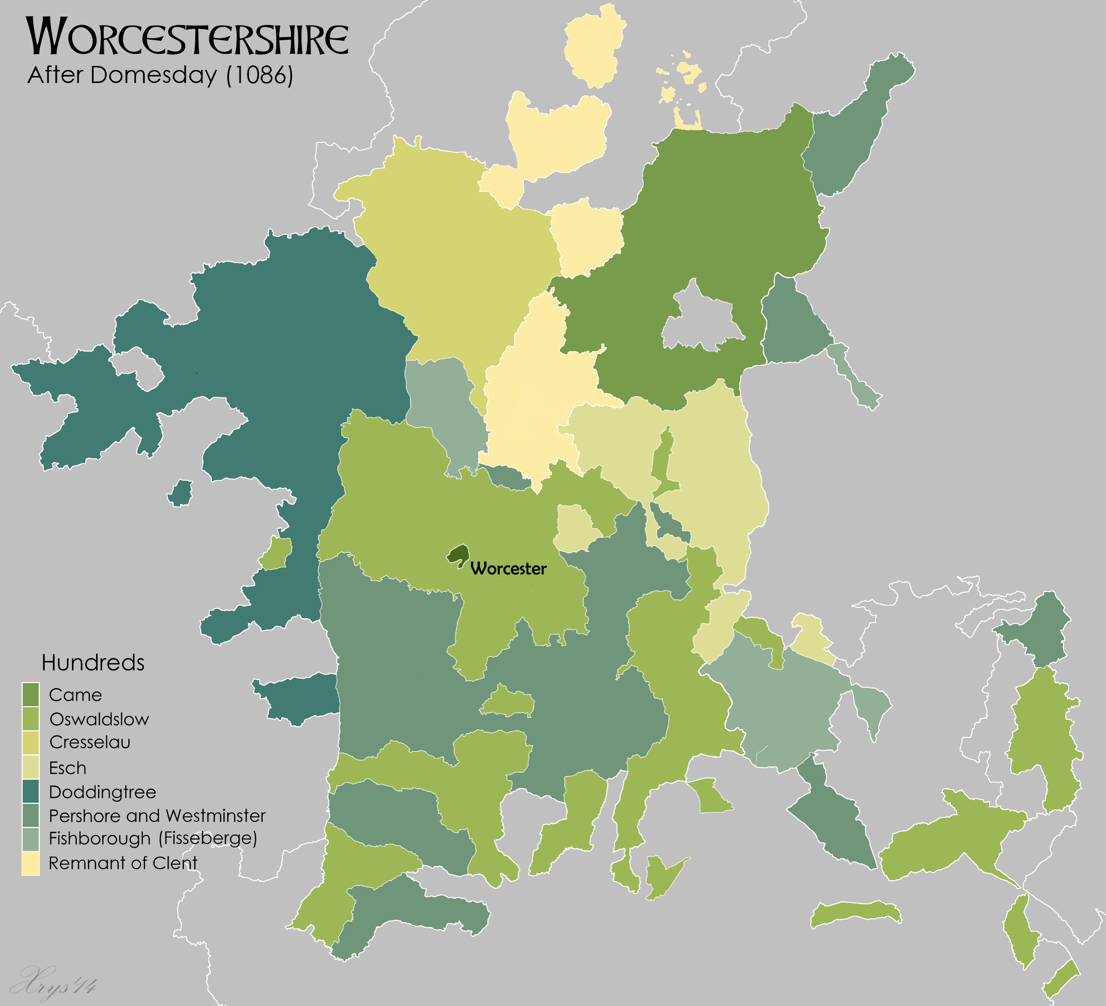 Adapted map of the ancient county of Worcestershire, after 1086 showing hundreds. Hundred boundaries from University of Nottingham English Place Name Society. Source data on parish boundaries - Kain, R.J.P., and Oliver, R.R. (2001) "Historic parishes of England and Wales: Electronic Map - Gazetteer - Metadata", Colchester: History Data Service. ISBN 0 9540032 0 9. Source data for Boroughs: H.M.S.O. Boundary Commission Report 1832 (courtesy of